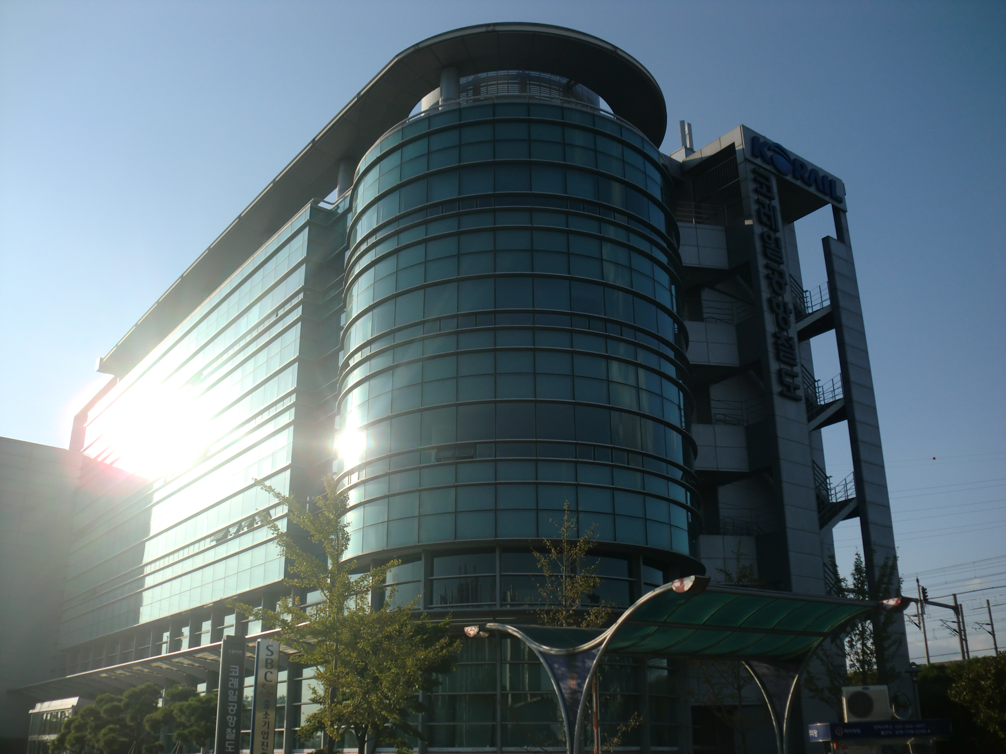 AREX headquarters